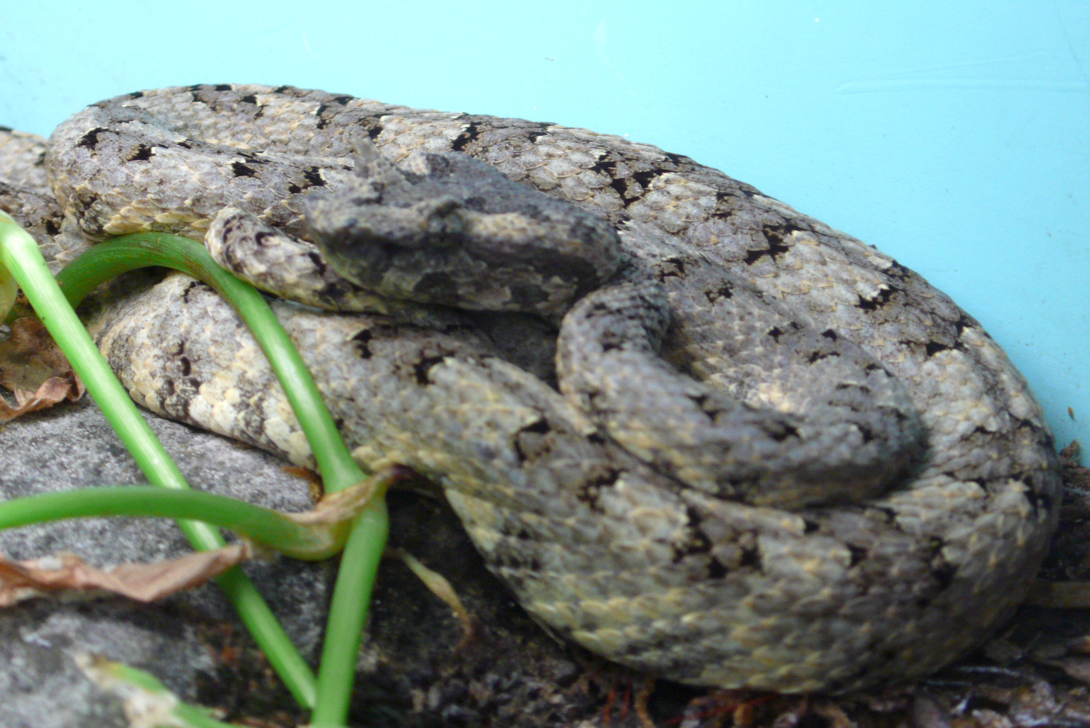 Fan-Si-Pan horned pitviper (Protobothrops cornutus, previously Trimeresurus cornutus)